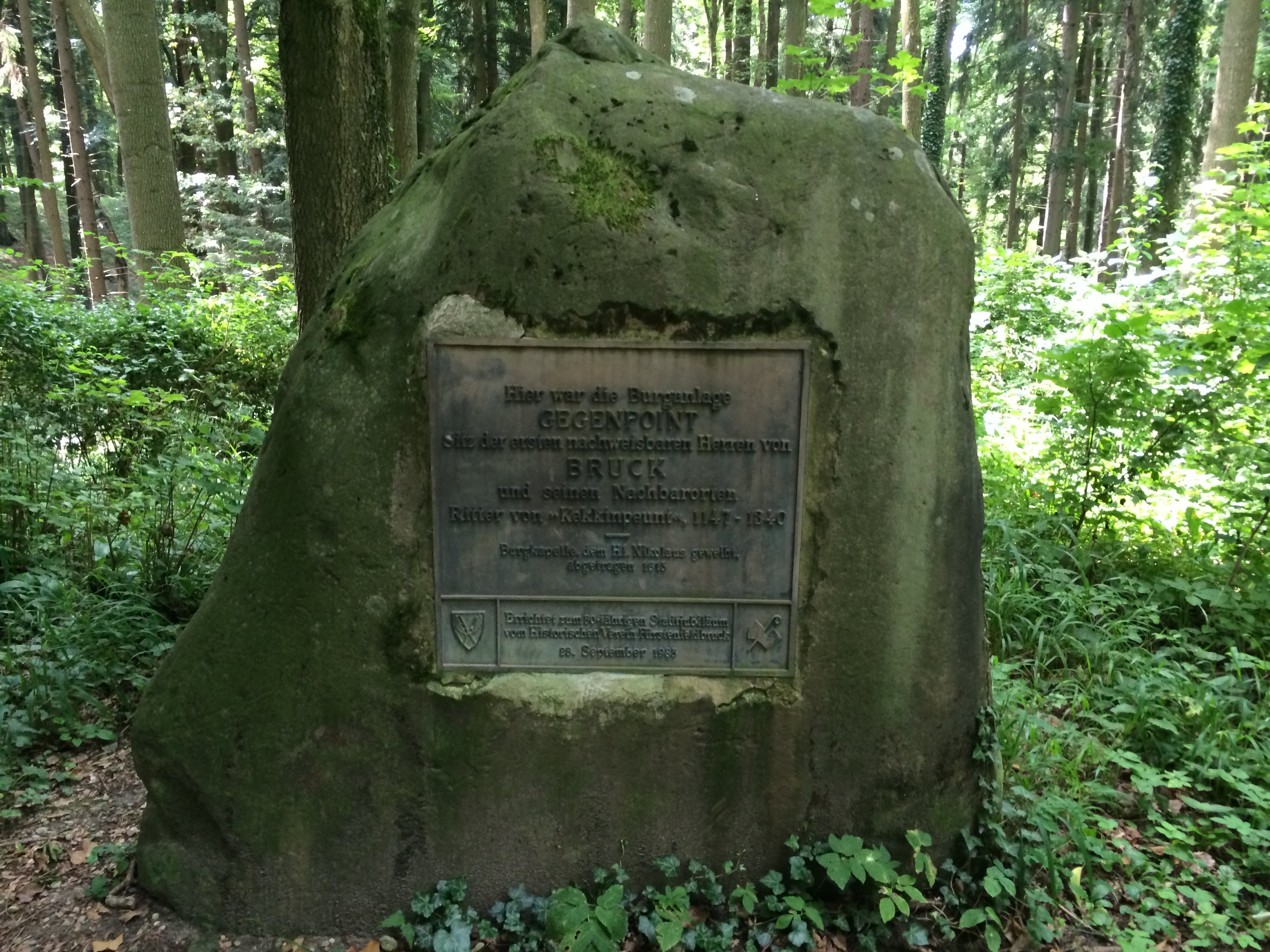 Memorial plaque placed by the Historical Society of Fürstenfeldbruck on the site of the former Gegenpoint Castle. The text reads: “Here stood the castle GEGENPOINT, seat of the proven Lords of BRUCK and its neighbouring villages. Knights of »Kekkinpeunt«, 1147 - 1340 Castle chapel dedicated to St. Nichlaus, torn down in 1813 Erected on the 30th anniversary of the founding of the Historical Society of Fürstenfeldbruck, 28th September 1985”